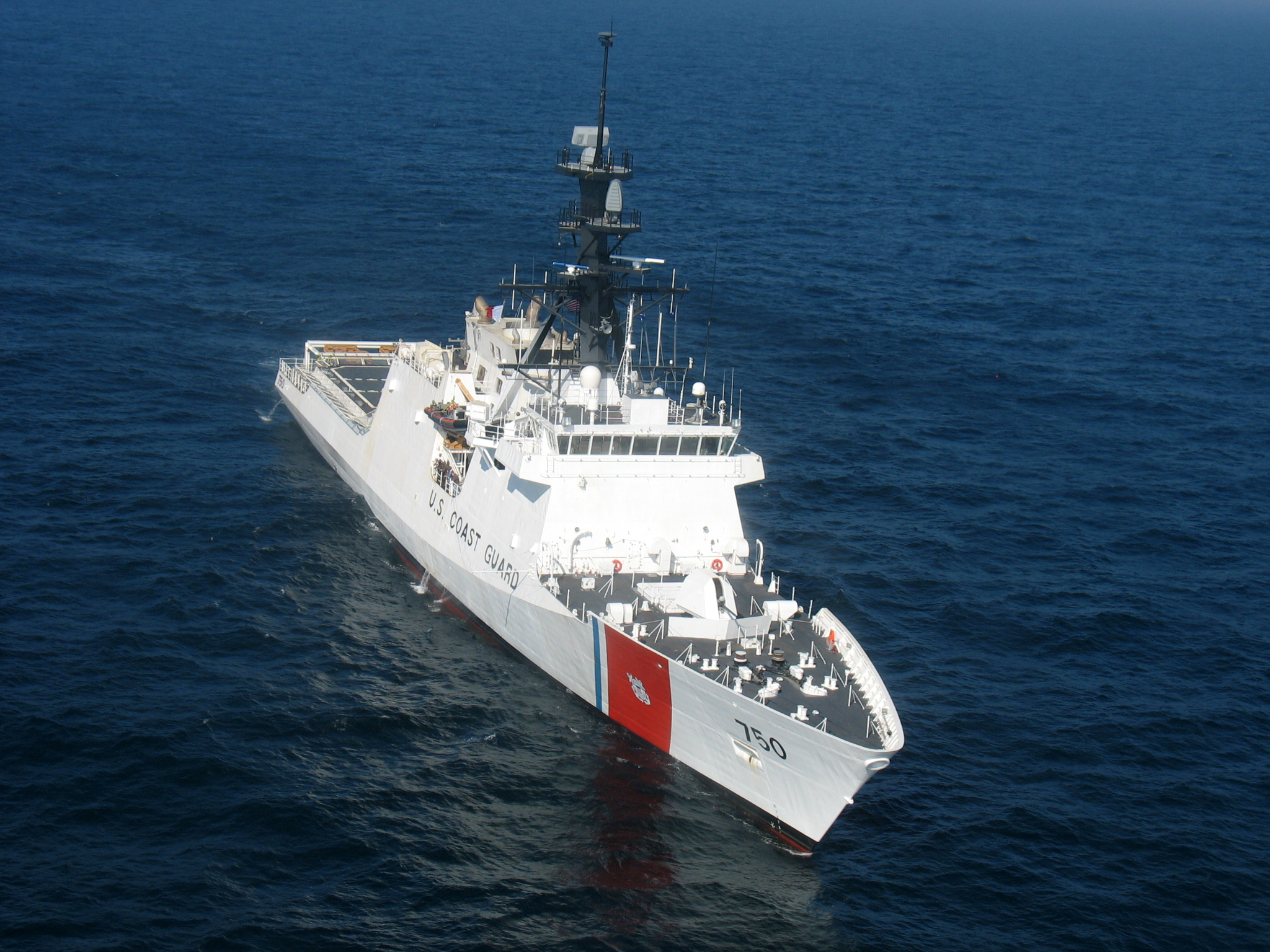 USCGC Bertholf (WMSL-750), the first National Security Cutter of the U.S. Coast Guard, during sea trials in the Gulf of Mexico, December 2007.